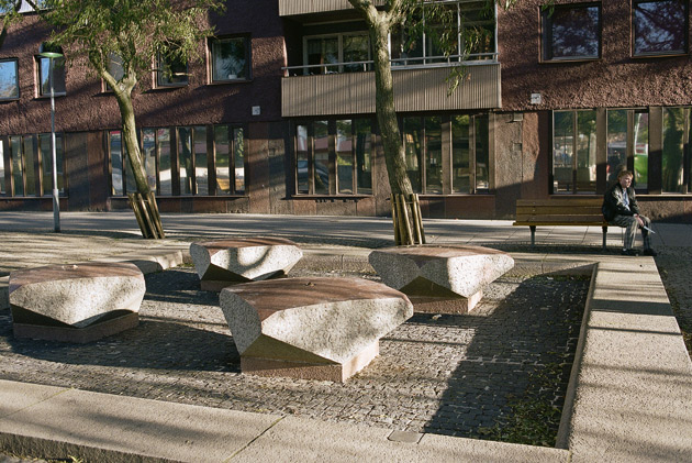 Akalla, man med kniv på torg vid korsningen Sibeliusgången/Nystadsgatan, "Akallafontänen", skulpturgrupp av Bertil Jonsson/Gatukontoret, foto okt/nov 1997.